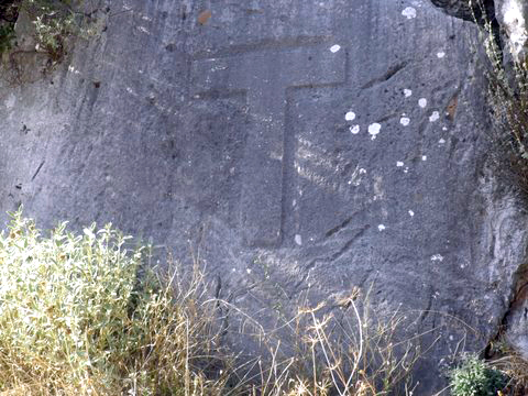 T of Fokaeis in Acropolis of Steirida, Boeotia, Greece